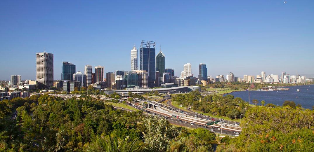 Perth Skyline from King's Park in 2012